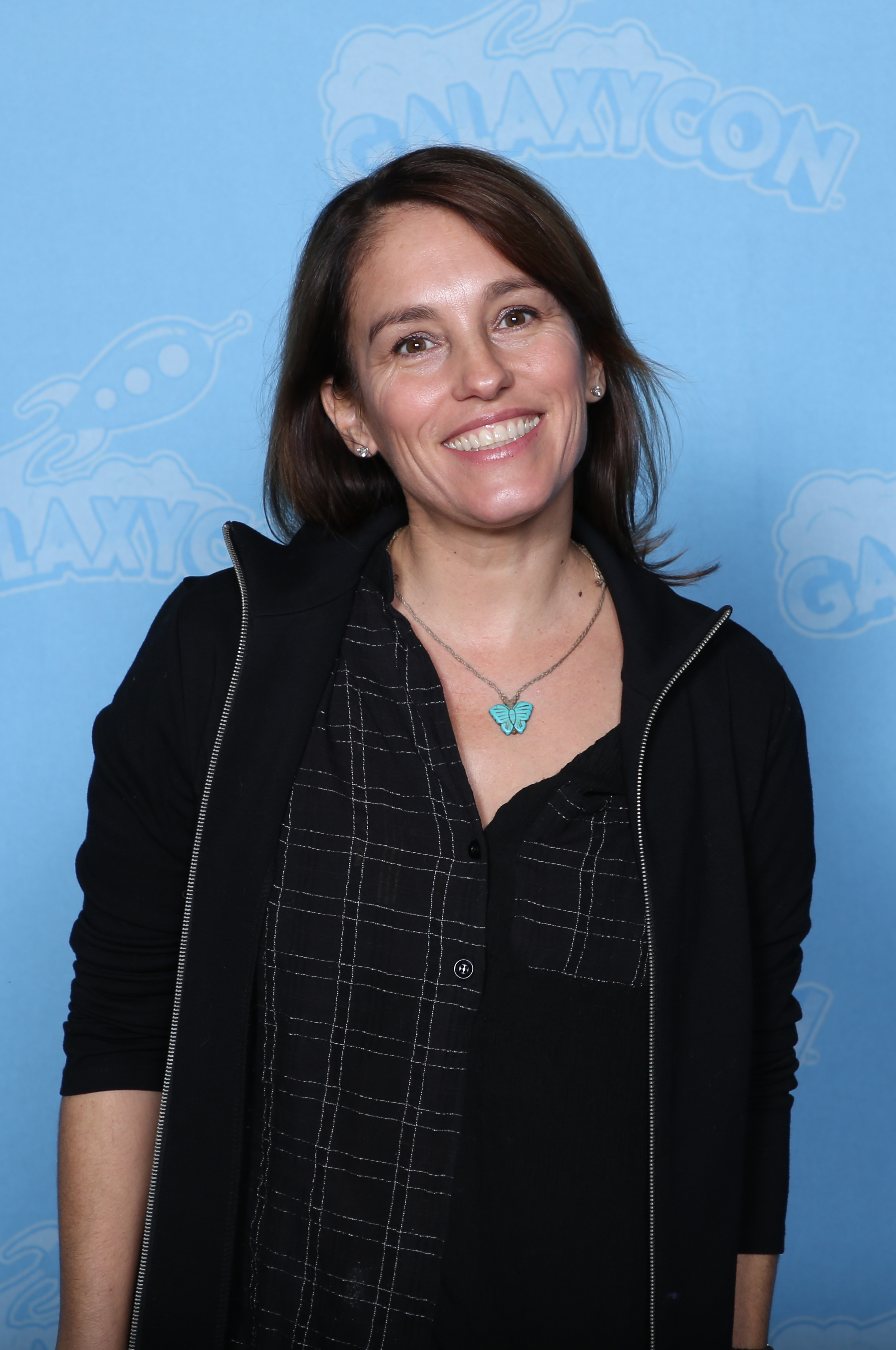 Amy Jo Johnson at GalaxyCon Minneapolis in 2019